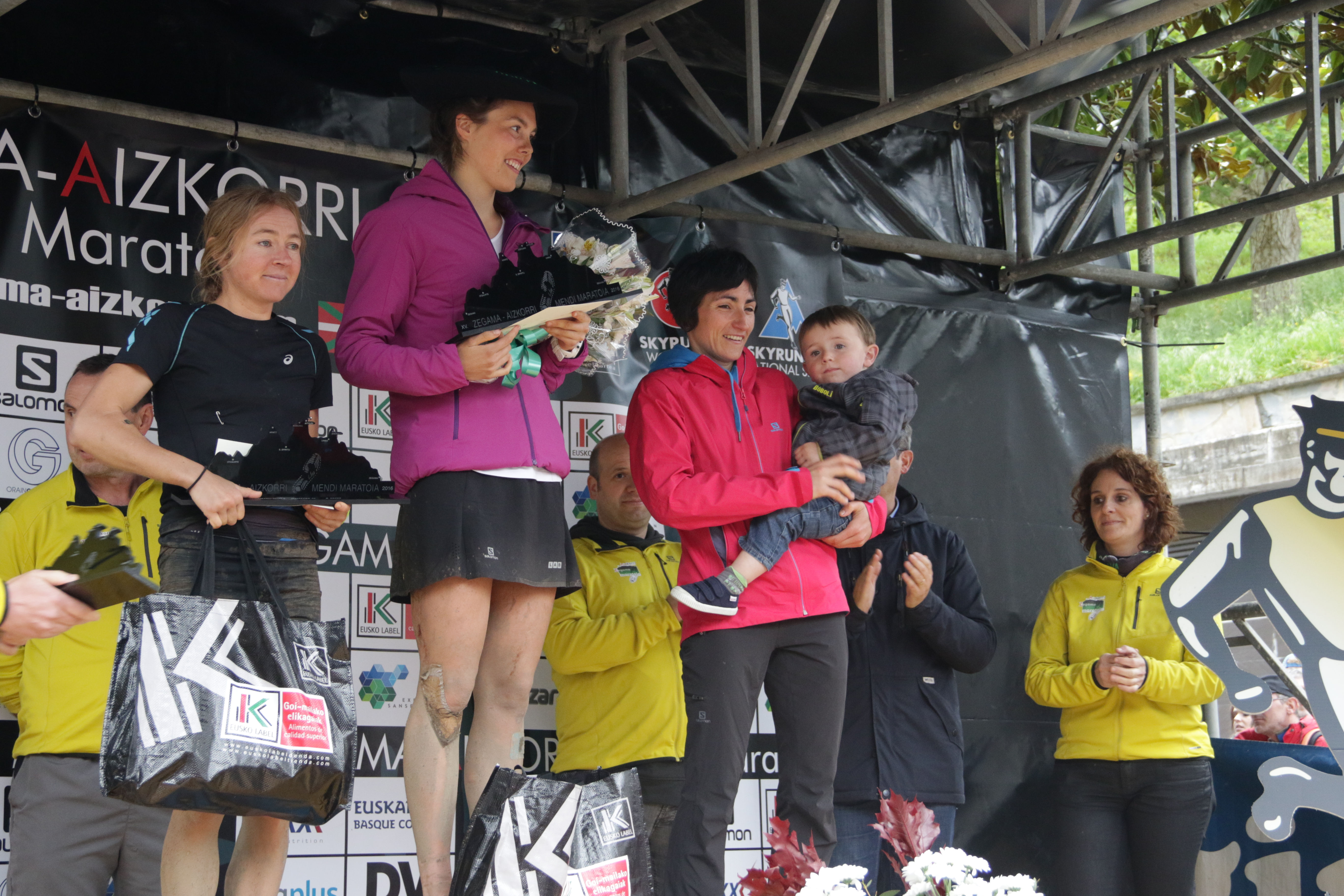 Women podium of the 201 Zegama-AizkorriZegama Aizkorri 2016